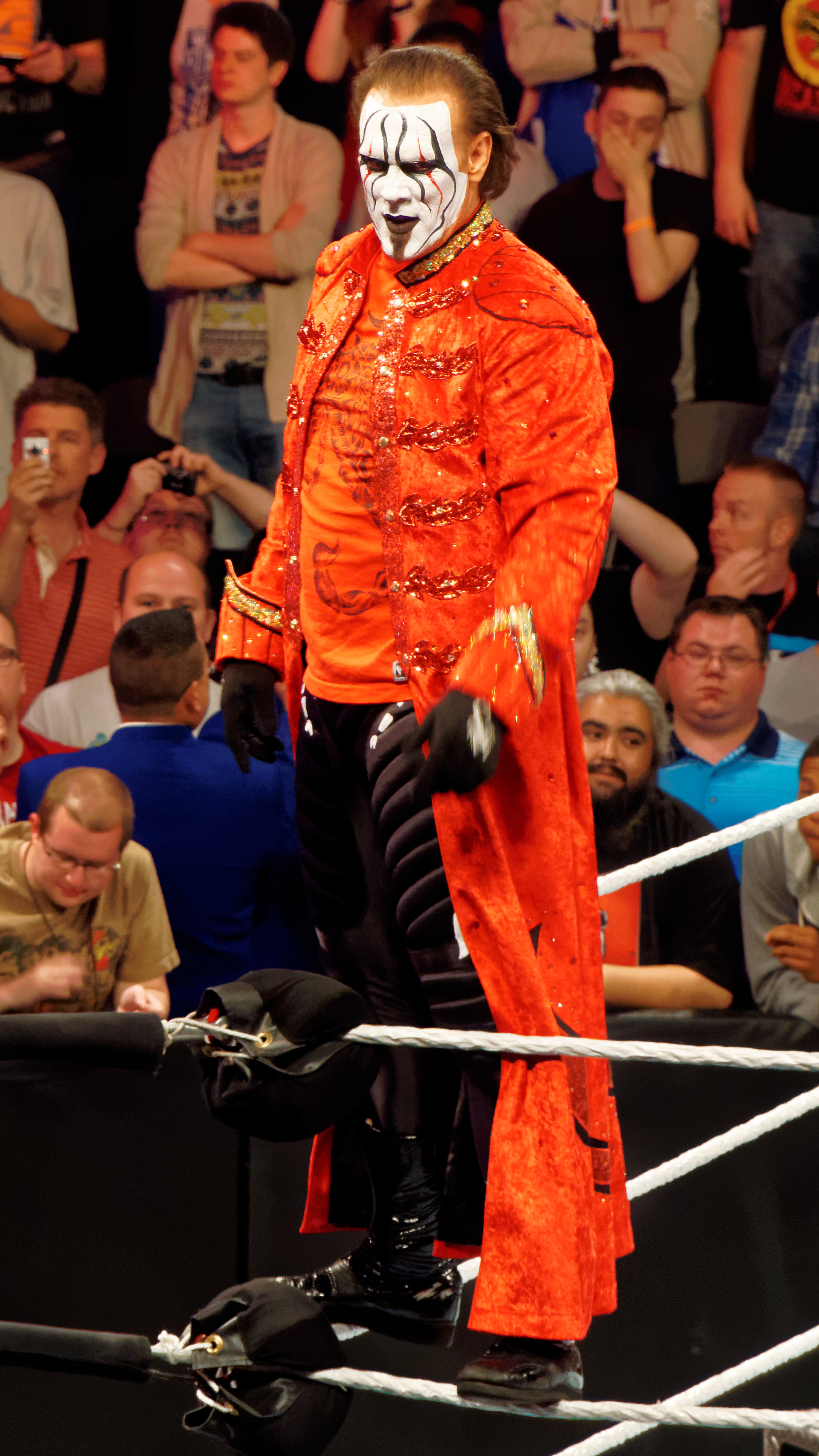 The raw everyboding is waiting for ... The One after Wrestlemania